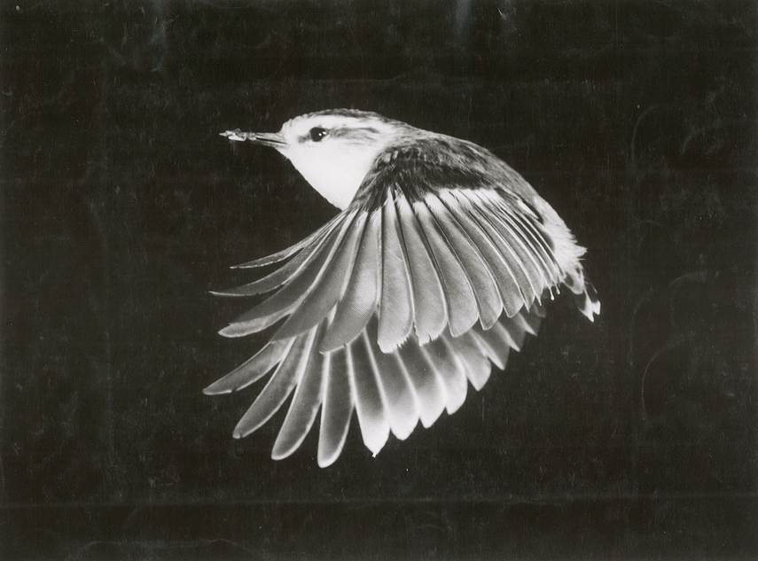 Title: Rifleman (Acanthisitta chloris). Maori name, "Titipounamu". Publicity Caption: Rifleman in flight. This is the first photographic record of the win[g] action of this, New Zealand's smallest bird, its total length being only three inches. For its nesting site, a hole or crevice in a tree is usually chosen. It is a highly beneficial Native bird, found throughout New Zealand, its food consisting entirely of insect life. Refer Buller's "N.Z. Birds". Photographer: K.V. Bigwood November 1951, Lake Ohau. Archives New Zealand reference: AAQT 6539 W3537 Box 47 / A25688 For more information use our “ask an archivist” link on our website: Material from Archives New Zealand Te Rua Mahara o te Kāwanatanga